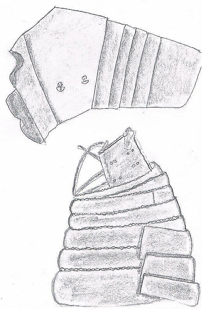 Tschuktschen Armour